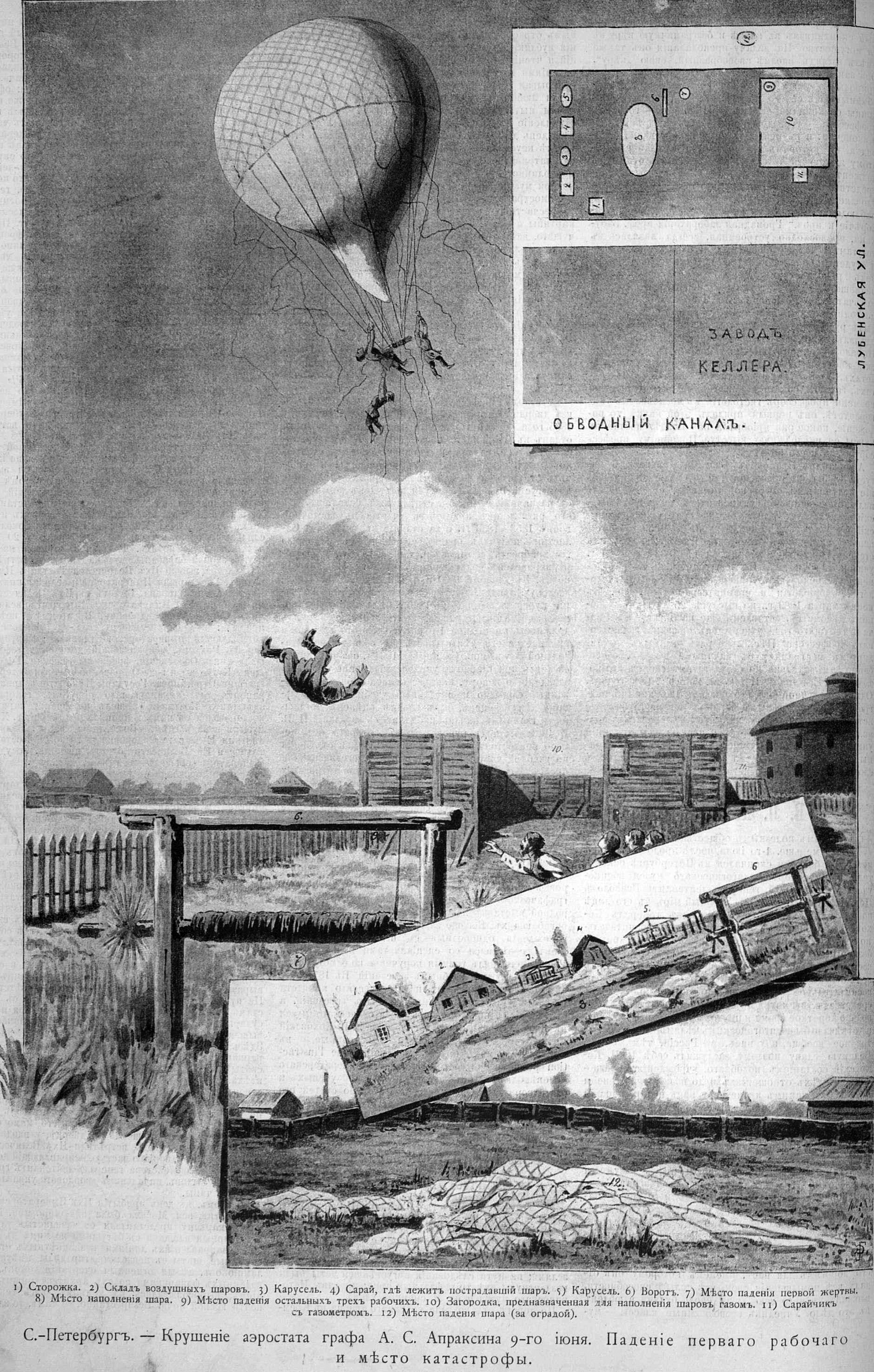 Collapse of the Apraksin balloon, 1891, St. Petersburg